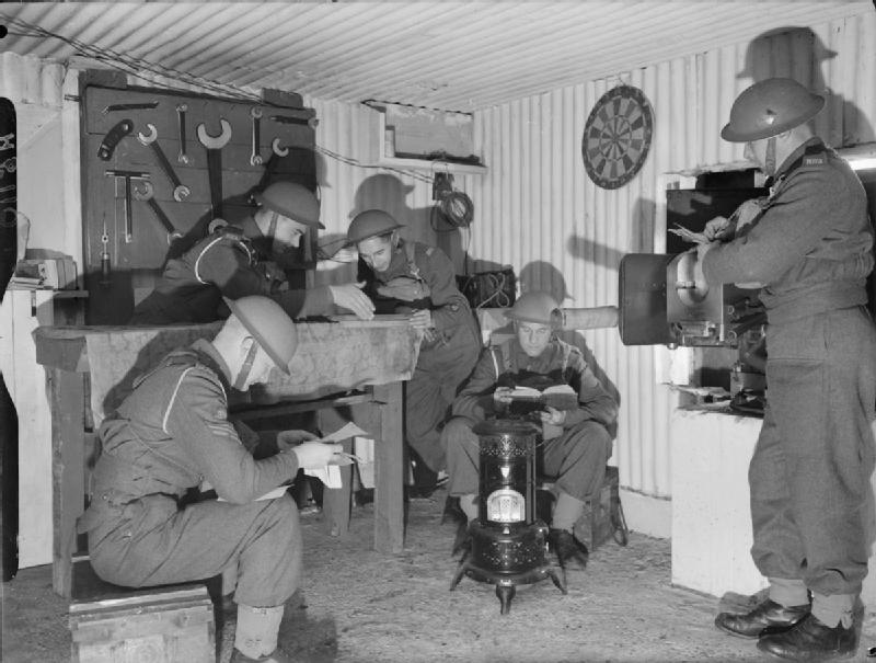 The British Army in the United Kingdom 1939-45 Gunners of 'G' Battery (Mercer's Troop), Royal Horse Artillery, inside a pillbox, 29 October 1940.